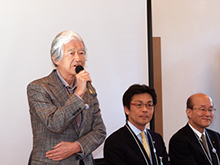 Shin'ya Izumi, Minister of State for Disaster Management, Sakae Saitō, Mayor of Atami City, and Kazuaki Itō, Chairperson of the Information Institute of Disaster Prevention, attended the Disaster Management Café in Atami at the Kiunkaku in Atami City, Shizuoka Prefecture on January 16, 2008.